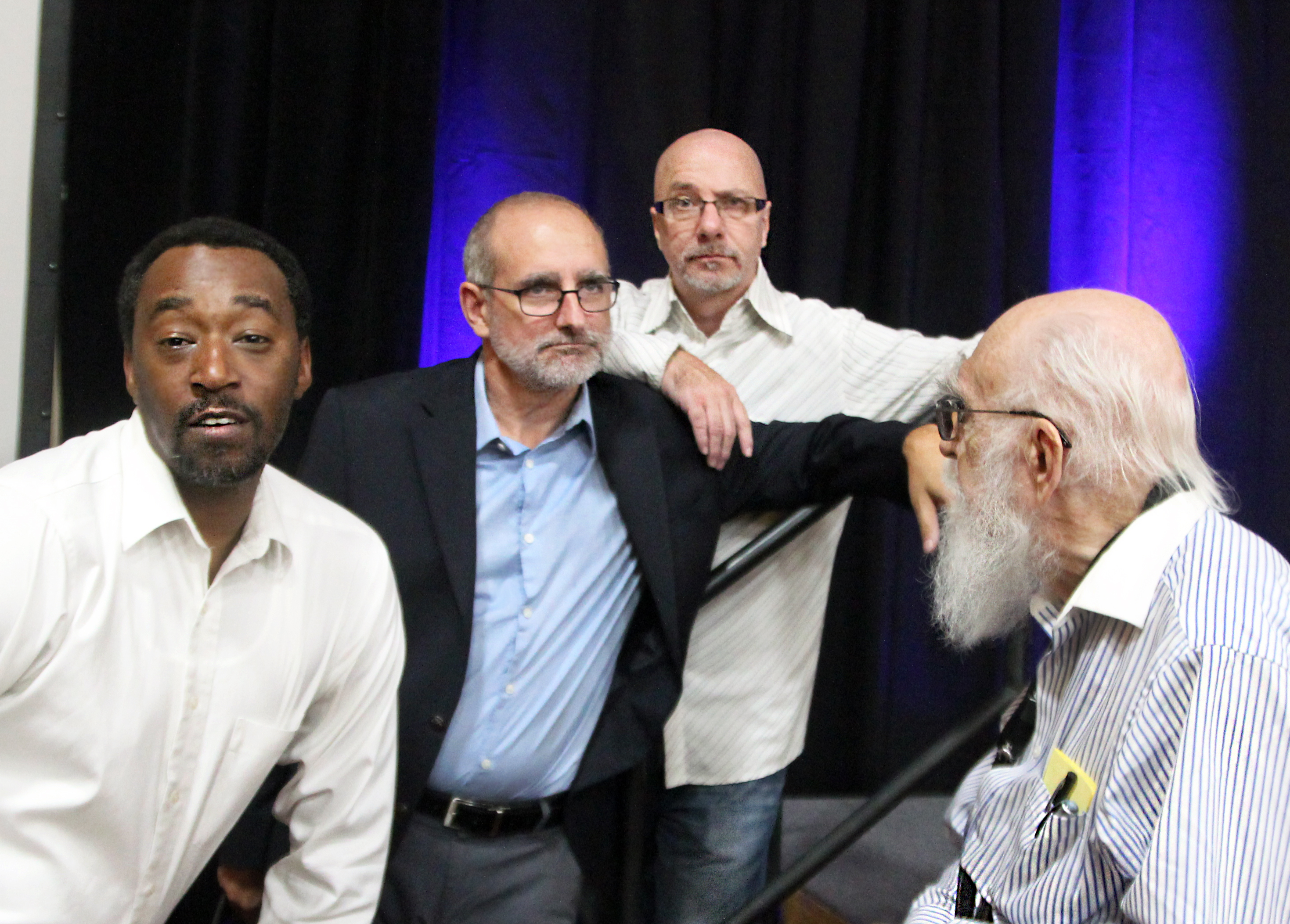 Victor Isaac, Dean Cameron, Emery Emery & James Randi after the "Nigerian Spam Scam Scam" show TAM13